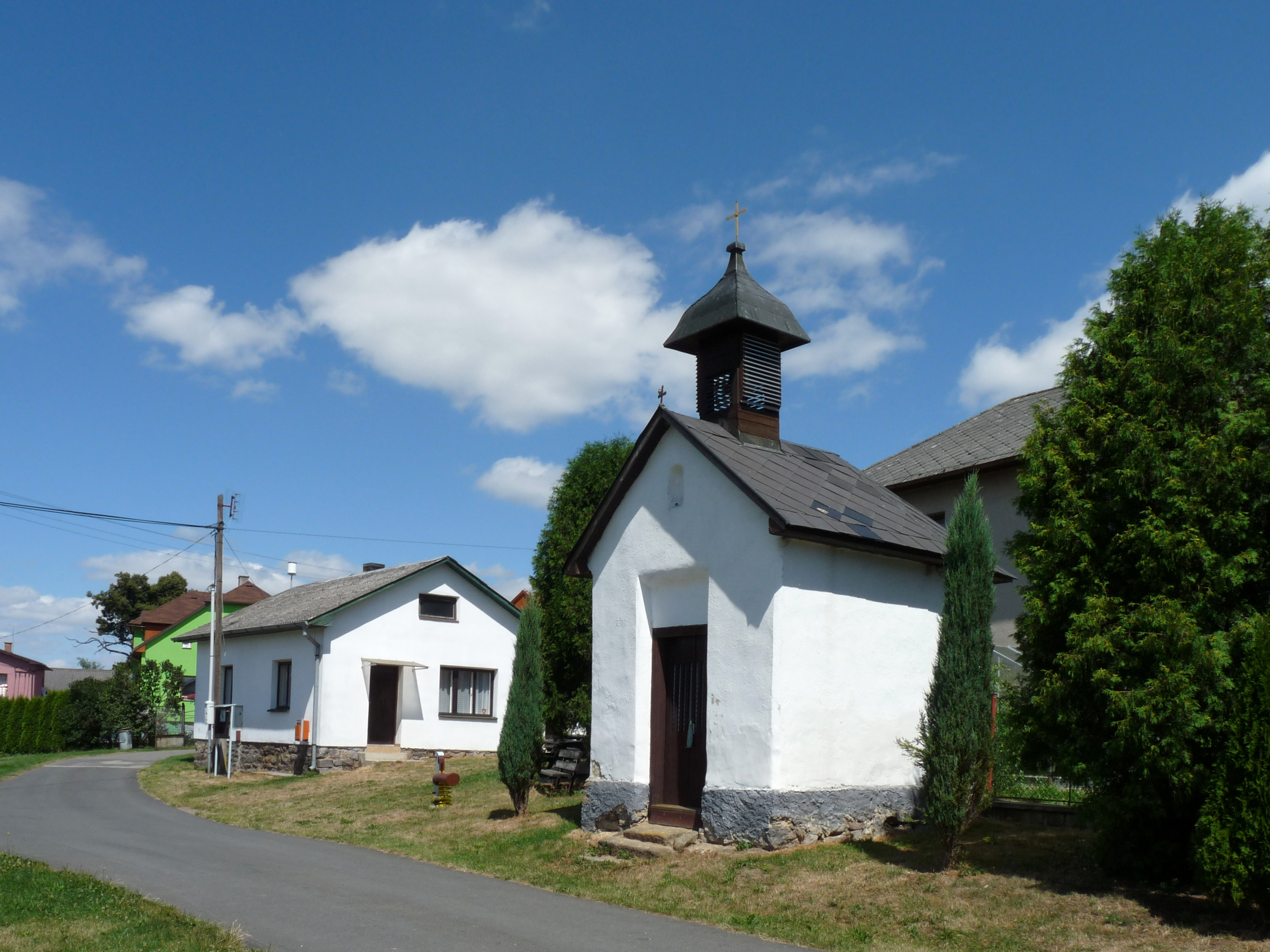 Chapel in the village of Opatovice, part of the town of Světlá nad Sázavou, Havlíčkův Brod District, Vysočina Region, Czech Republic.